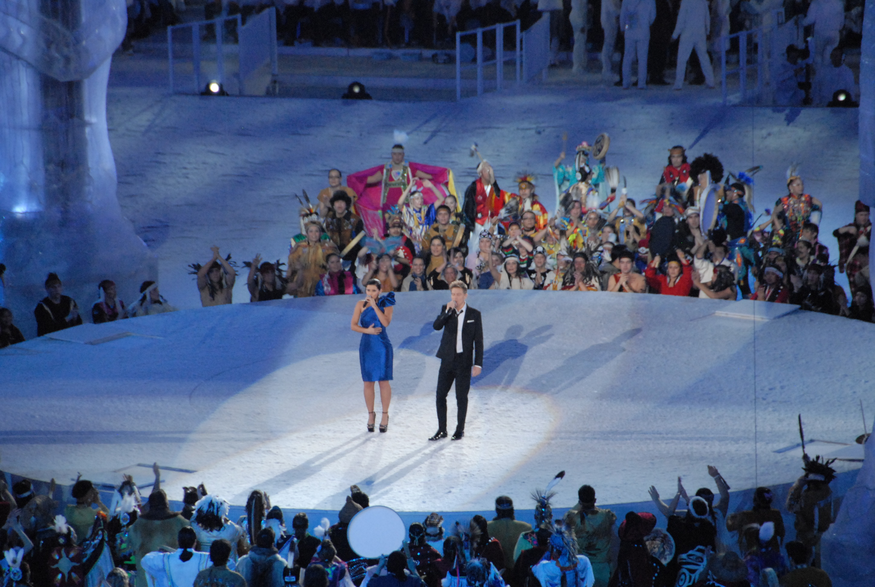 Nelly Furtado and Bryan Adams performing "Bang the Drum" at the opening ceremonies at the 2010 Winter Olympics